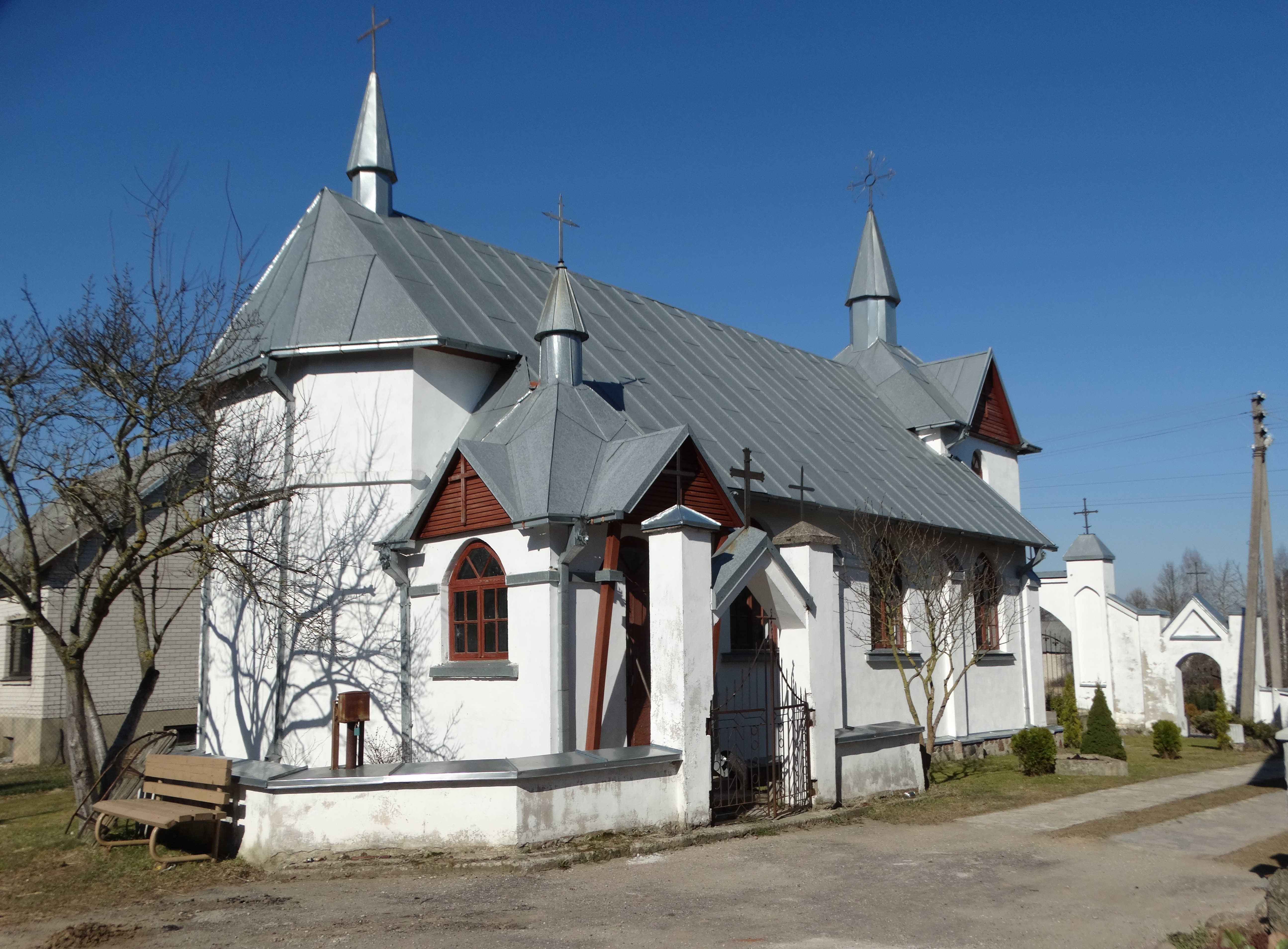 Pijus Stulginskis chapel, Vaiguva, Kelmė district, Lithuania